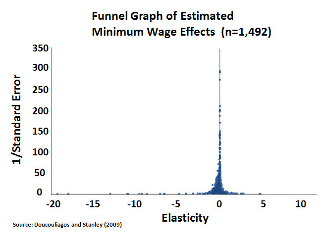 Funnel graph of estimated minimum wage effects from a meta-study of 64 minimum wage studies published between 1972 and 2007. Graph shows insignificant employment effect (both practically and statistically) from minimum-wage raises.